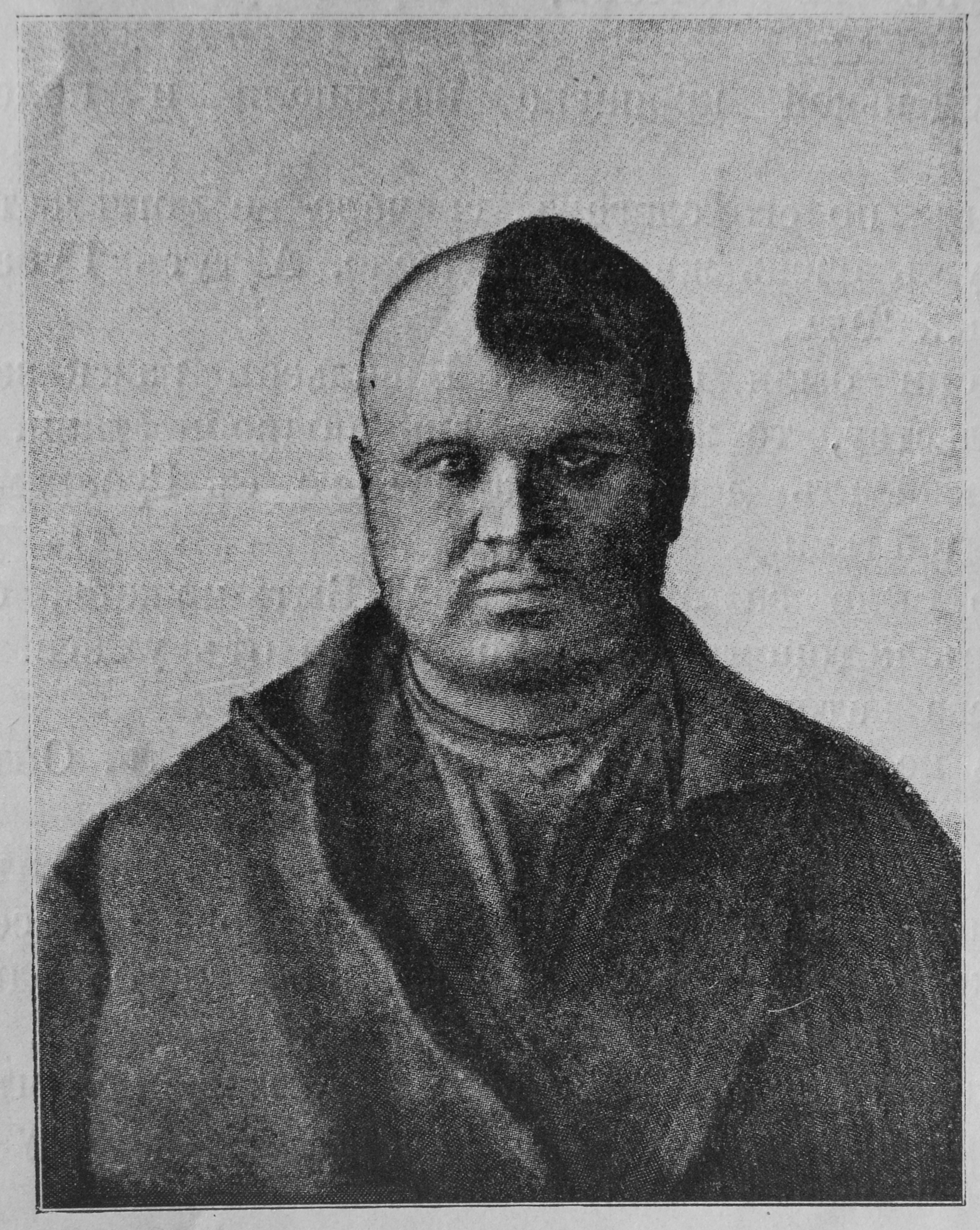 "Onor cannibal" Gubar